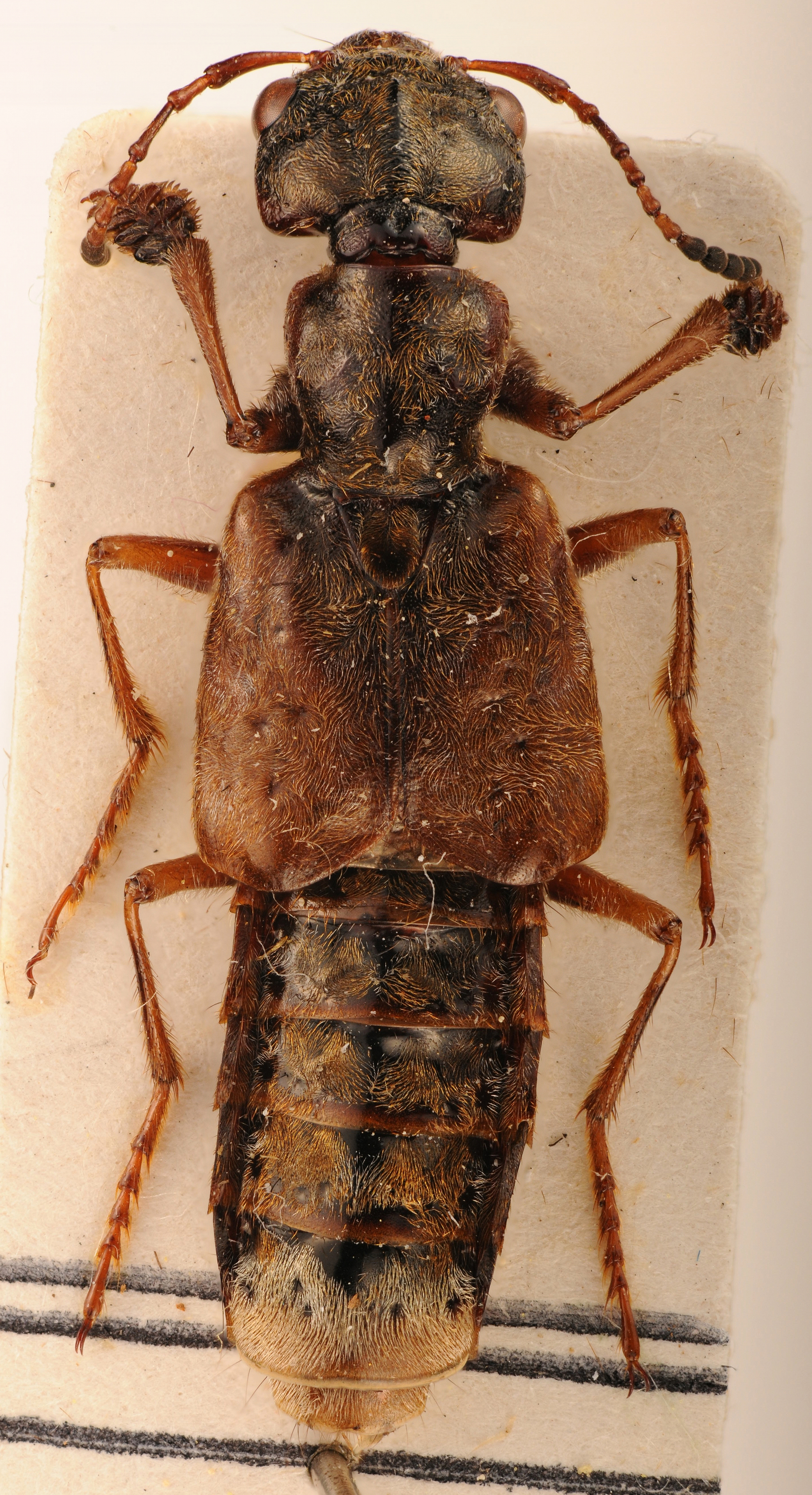 Holotype of Eucibdelus transversiceps Scheerpeltz, 1976 in Zoologische Staatssammlung Munich (ZSM)